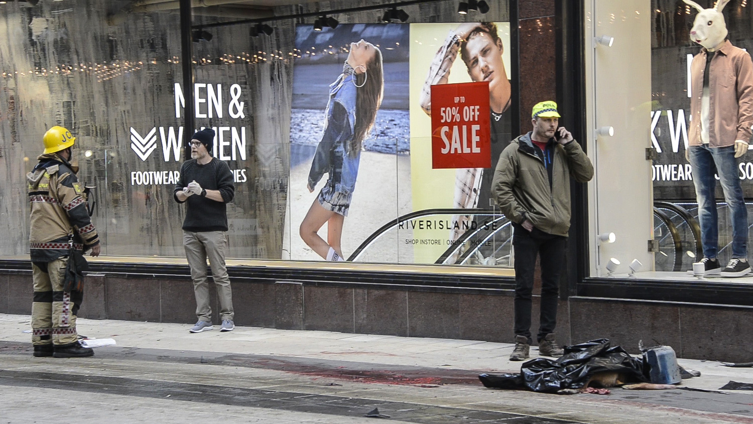 The terrorist attack in Stockholm April 7, 2017.